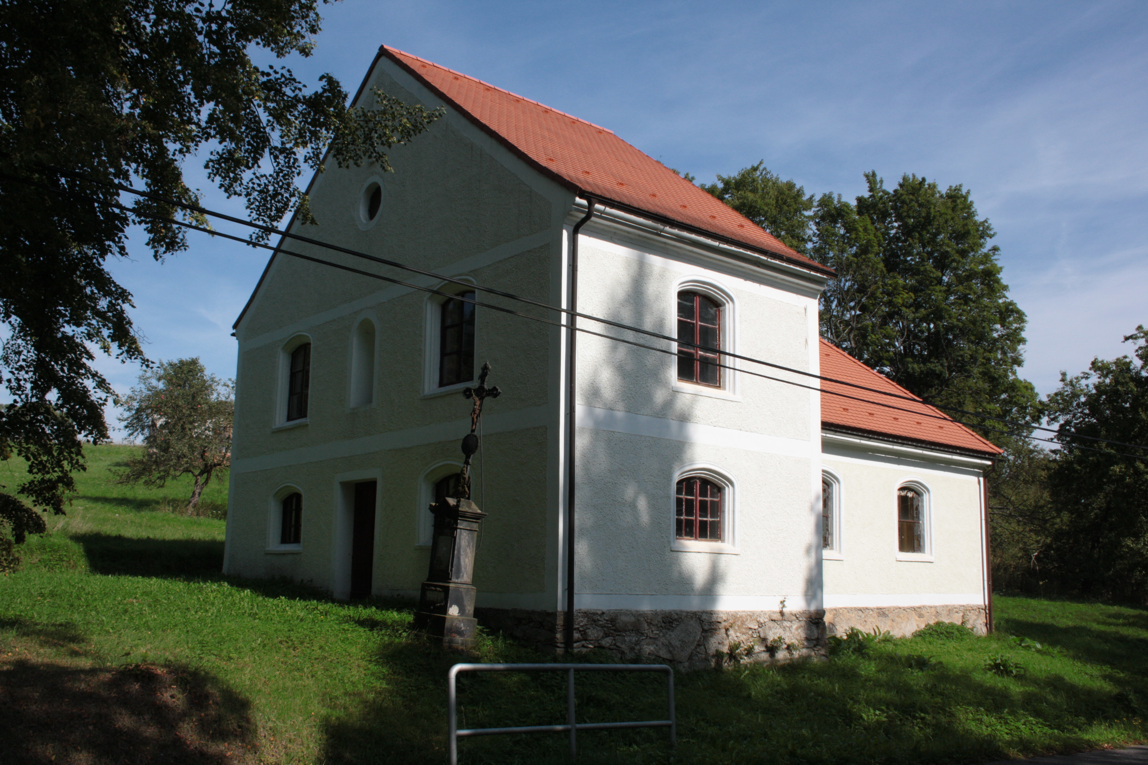 This photograph was taken with a DSLR from WMCZ's Camera grant.